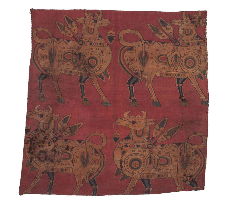 Carlo Cristi, silk, Central Asia, 8th century, 60 x 60cm